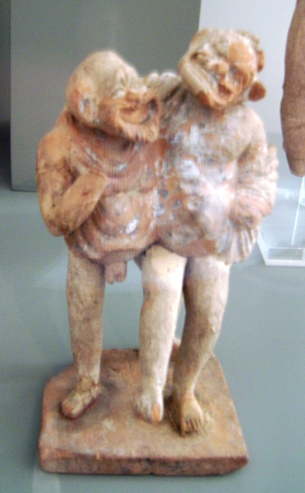 Terracotta figurines of two comic actors, wearing masks.